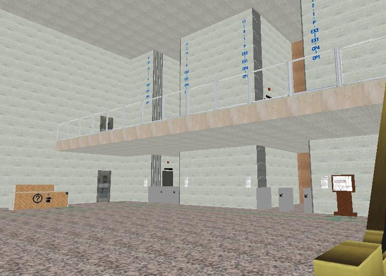 This is a screenshots from my building that is created with Skyscraper Simulator. All the scripting is written by me. This building which can found in my ip (Integration Project).